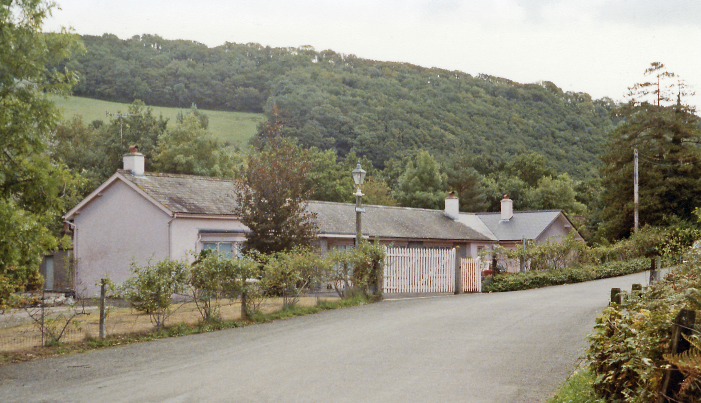 Former station at Christow, 1984. View SE in the Teign Valley, towards Heathfield: Exeter - Heathfield (- Newton Abbot) line. Yet another station converted to a private house, Christow station had been closed from 9/6/58 along with the line from Exeter. However, goods traffic continued from the Heathfield end until later severe flood damage eventually led to closure from 1/5/61 as far as Trusham although the last section to Heathfield remained in use until 1/7/68.